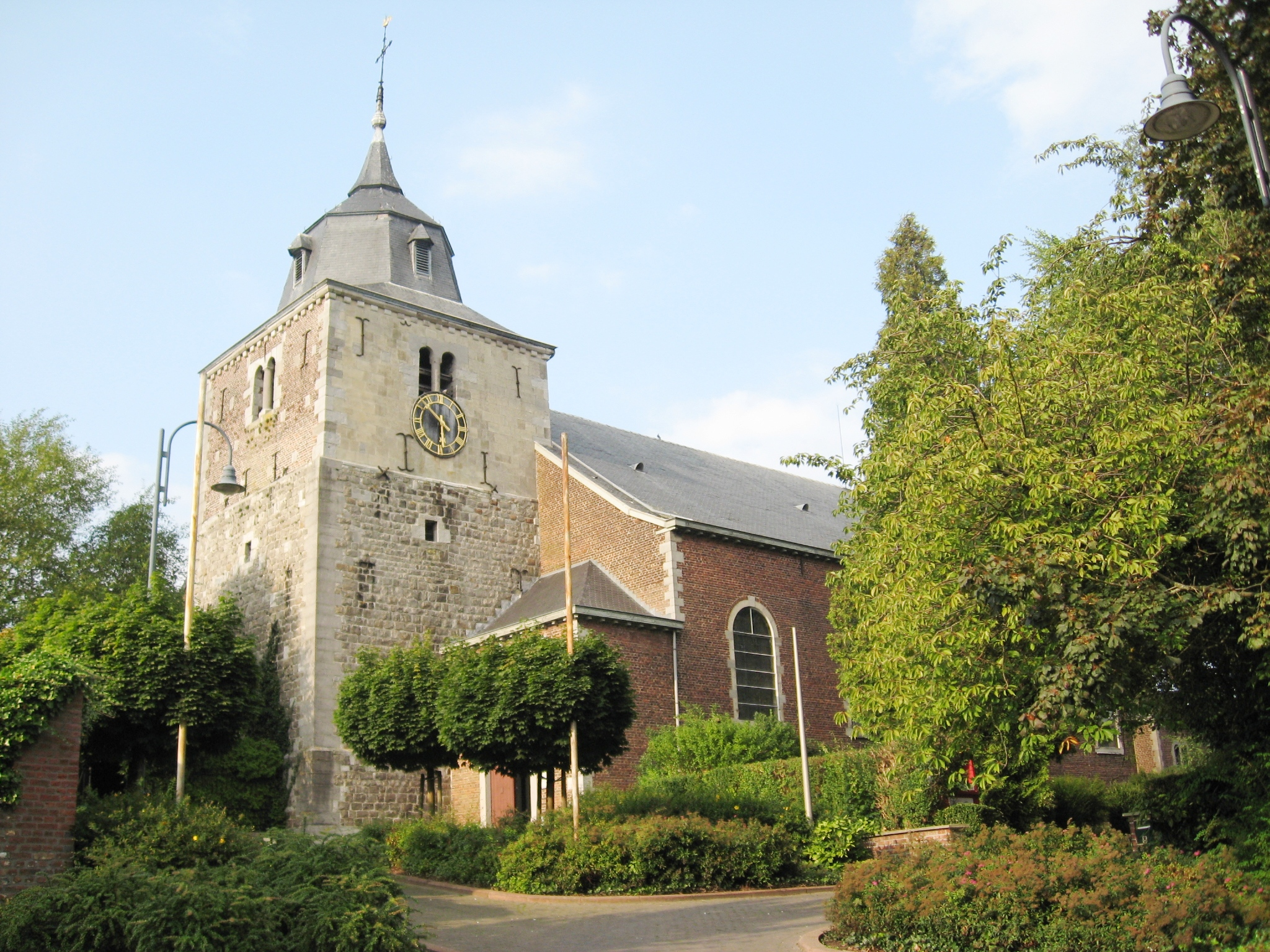 Church of Saint Martin in Montenaken, Gingelom, Limburg, Belgium